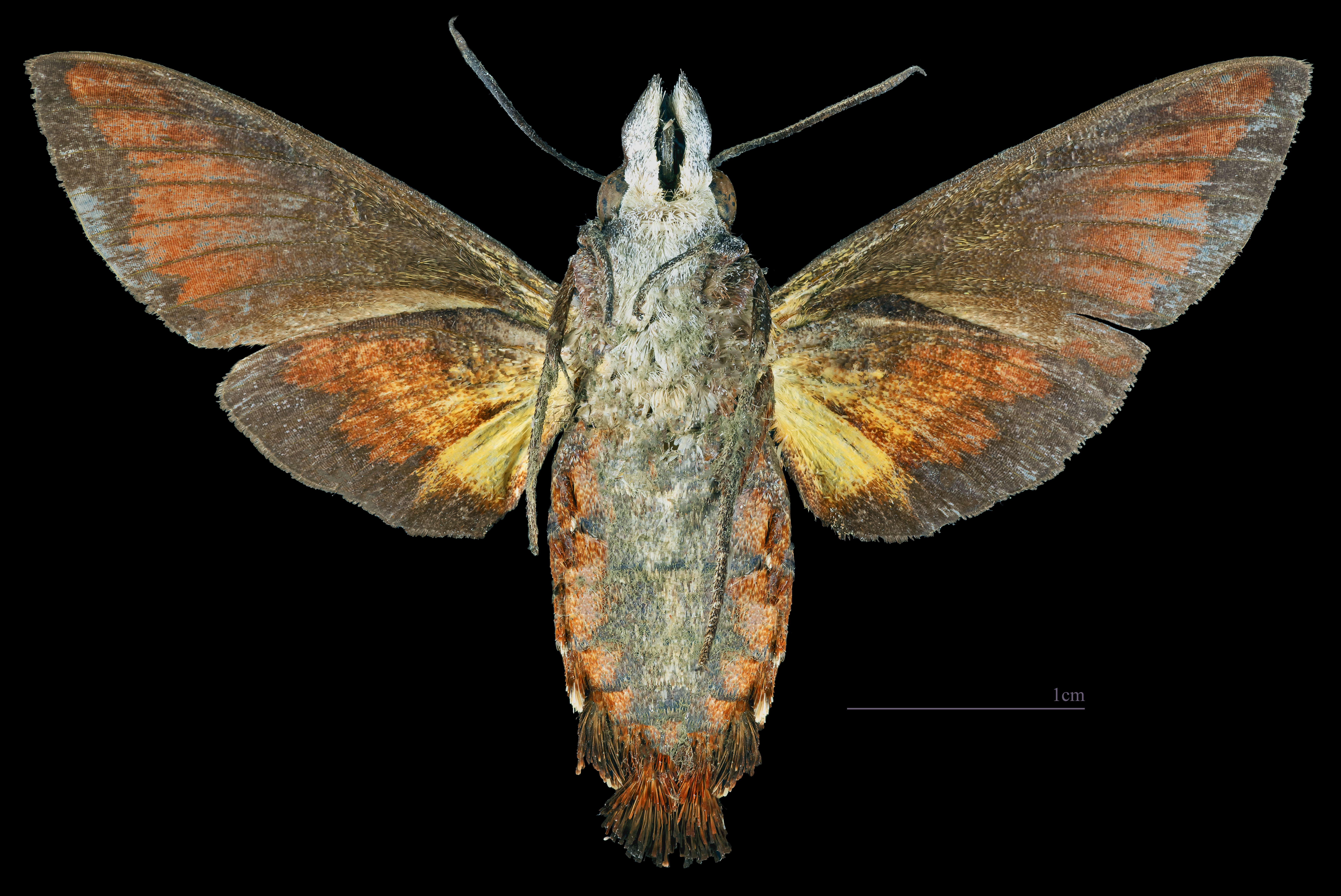 Macroglossum caldum - △ Ventral side Collection of the Mathematician Laurent Schwartz